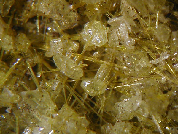 Yellow acicular crystals of Hoelite (picture size: 10 mm) - Locality: Carolaschacht Mine, Freital near Dresden, Saxony, Germany